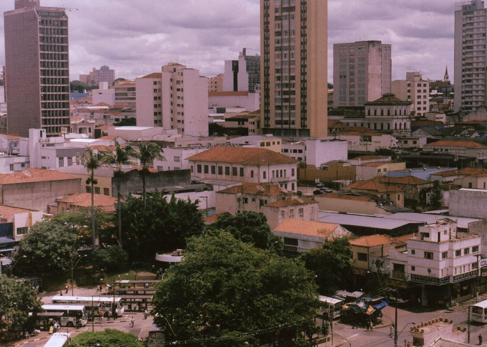 Urban bus terminal at the center of Campinas, São Paulo state. Photo taken by myself, João Xavier M.Santos, on December 2004.